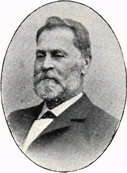 Frans Edvard von Sydow (1828-1914), Swedish physician